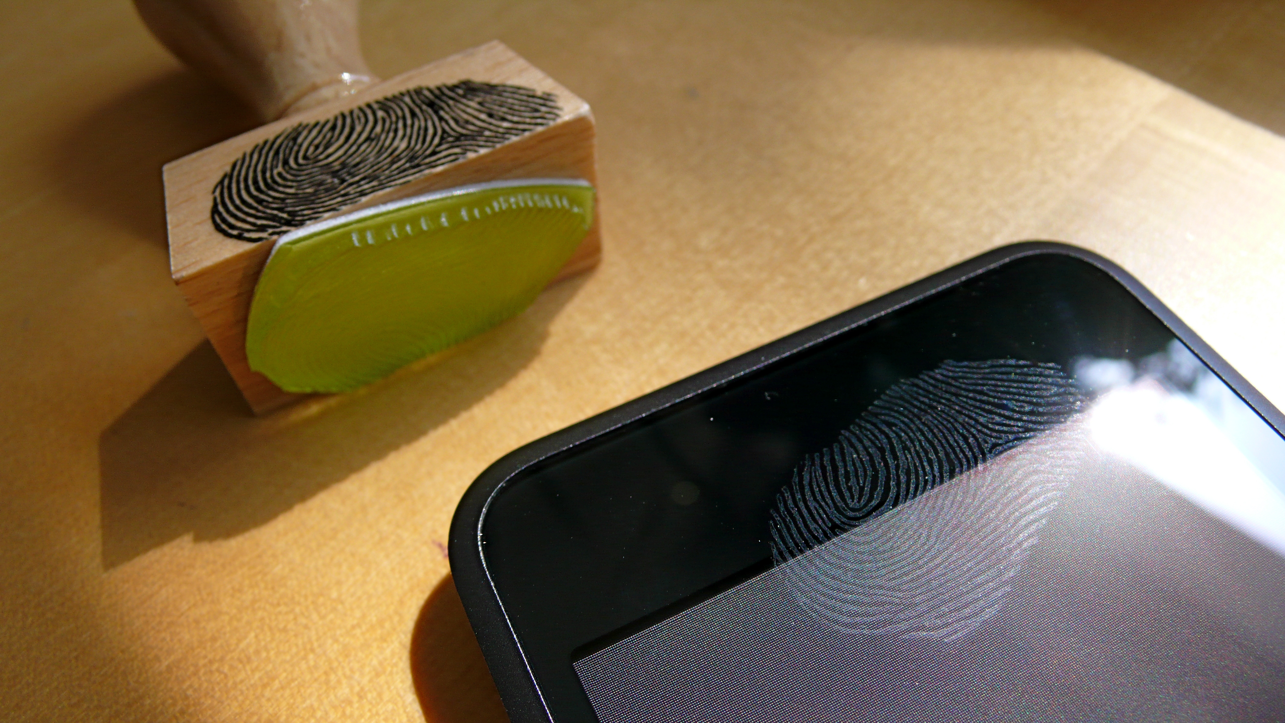 Stamp for Wolfgang Schäuble fingerprints, CCC.